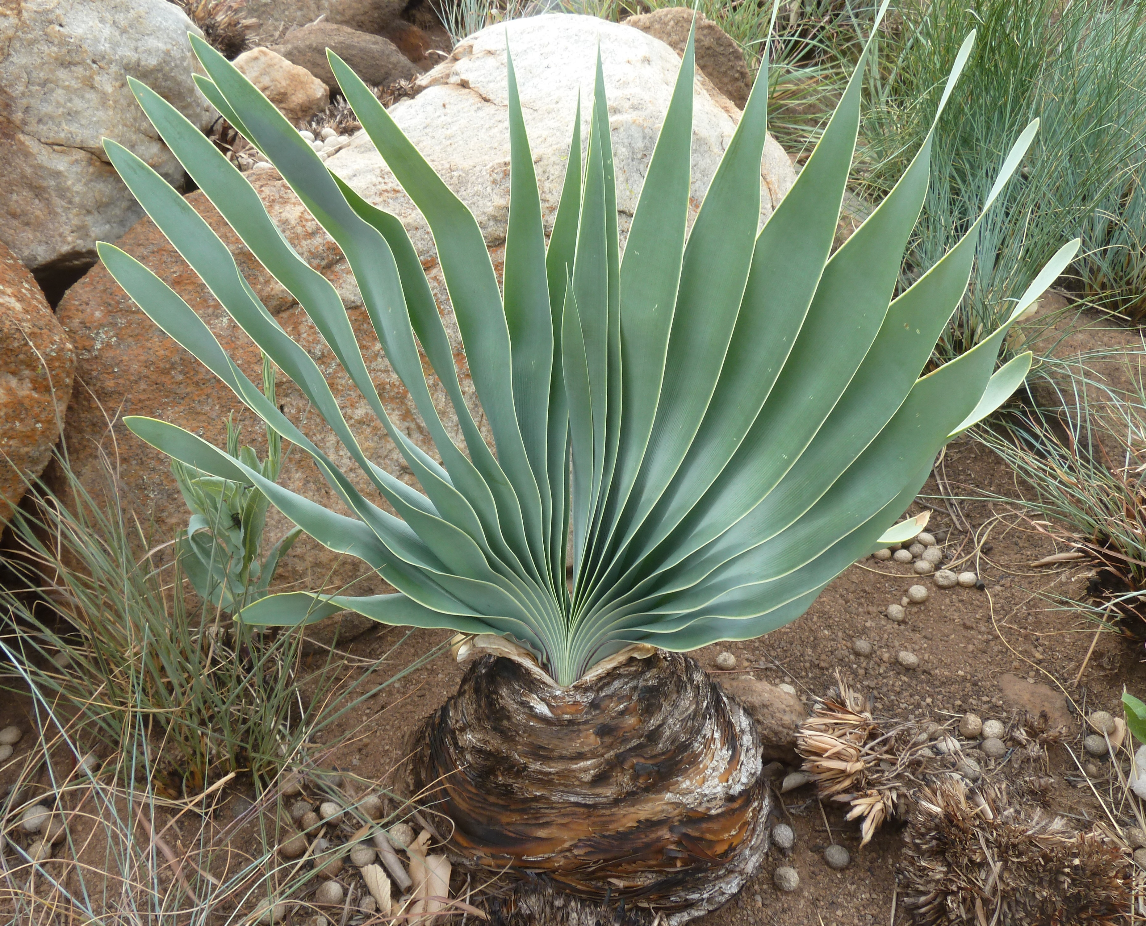 Habit of Century plant near Dewetsnek on the crest of the Magaliesberg, near Skeerpoort, North West. It exhibits distichous phyllotaxis.